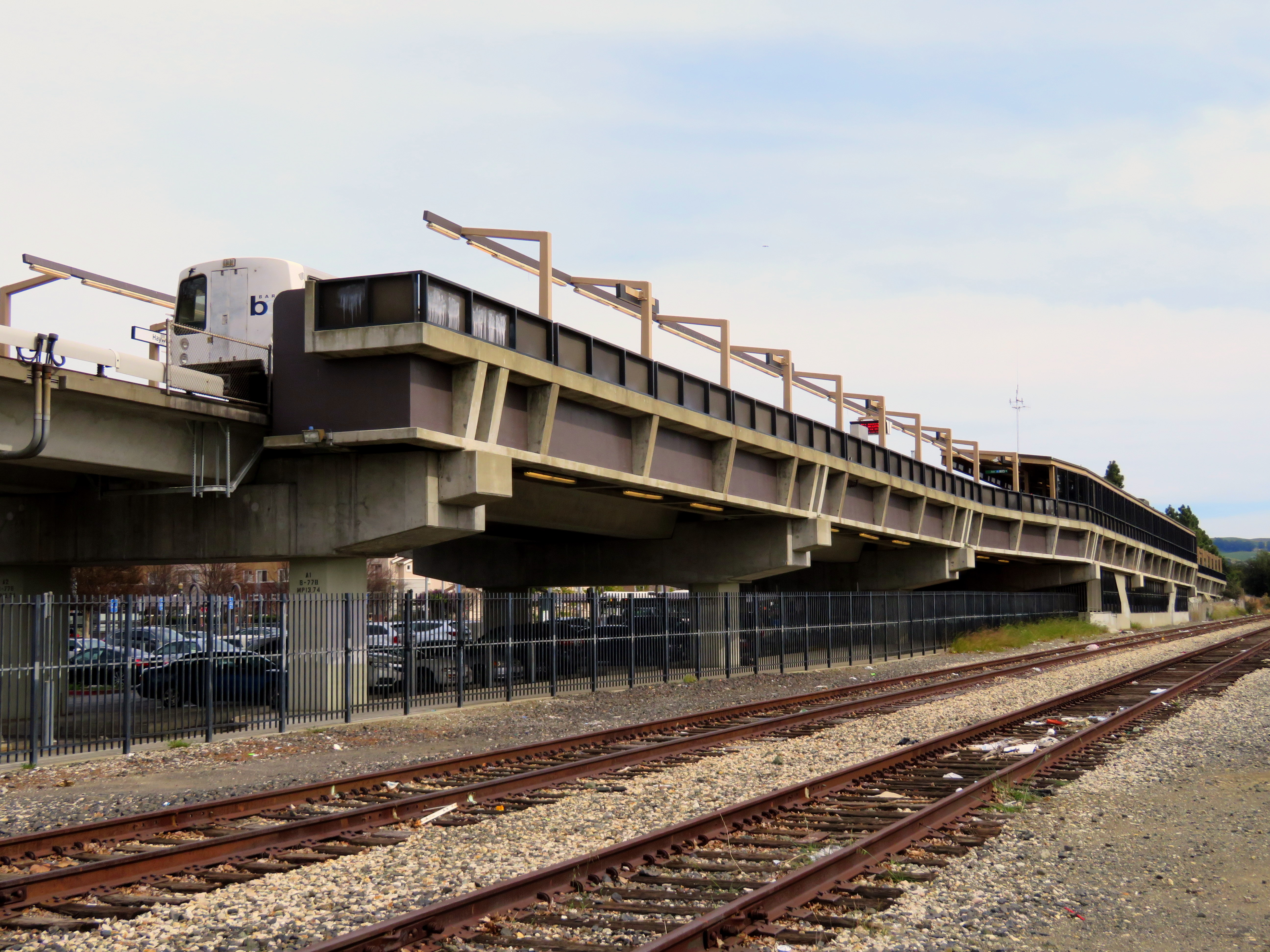 Hayward station and the Oakland Subdivision in March 2018